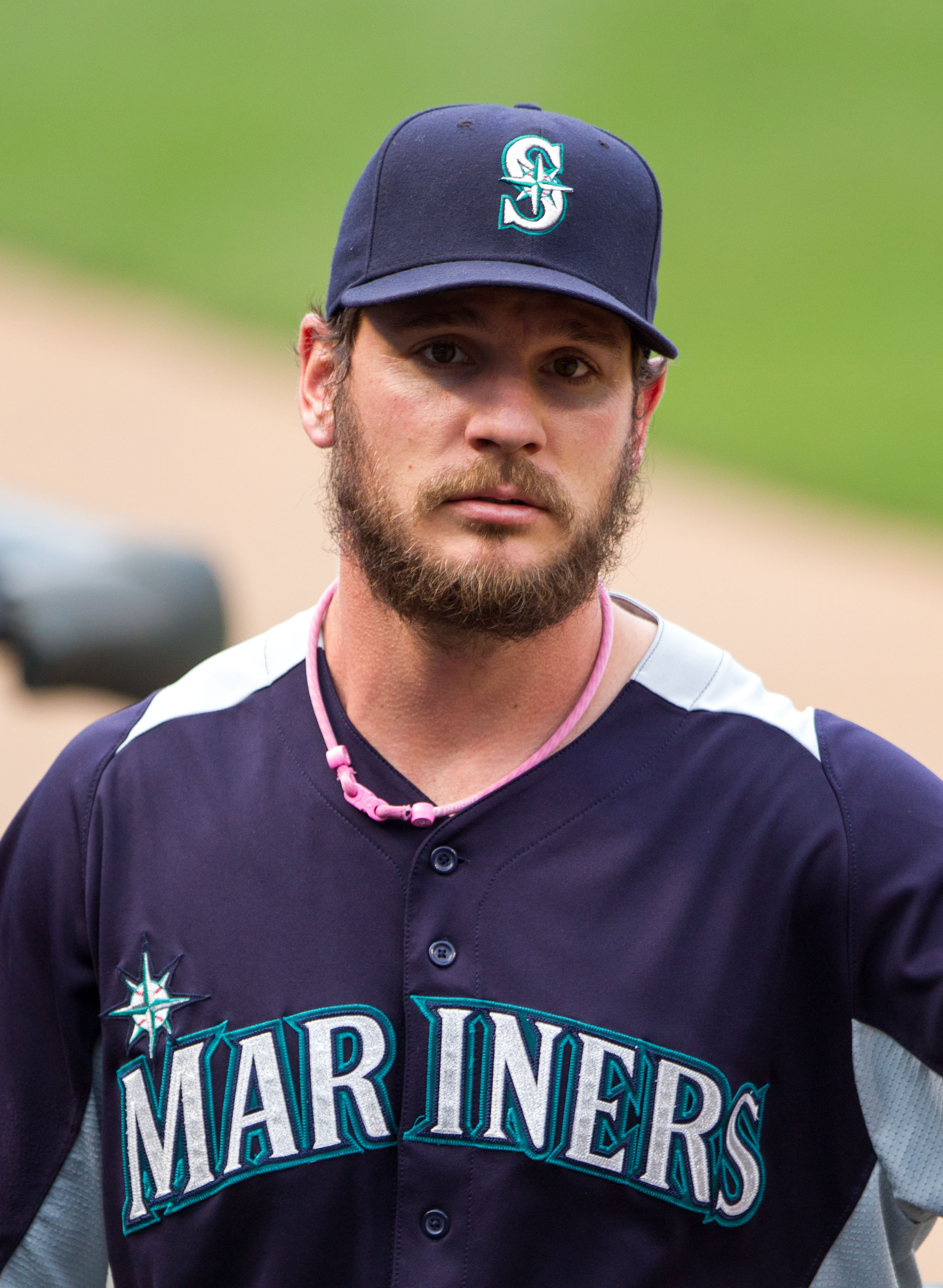 Mariners at Orioles August 6, 2012